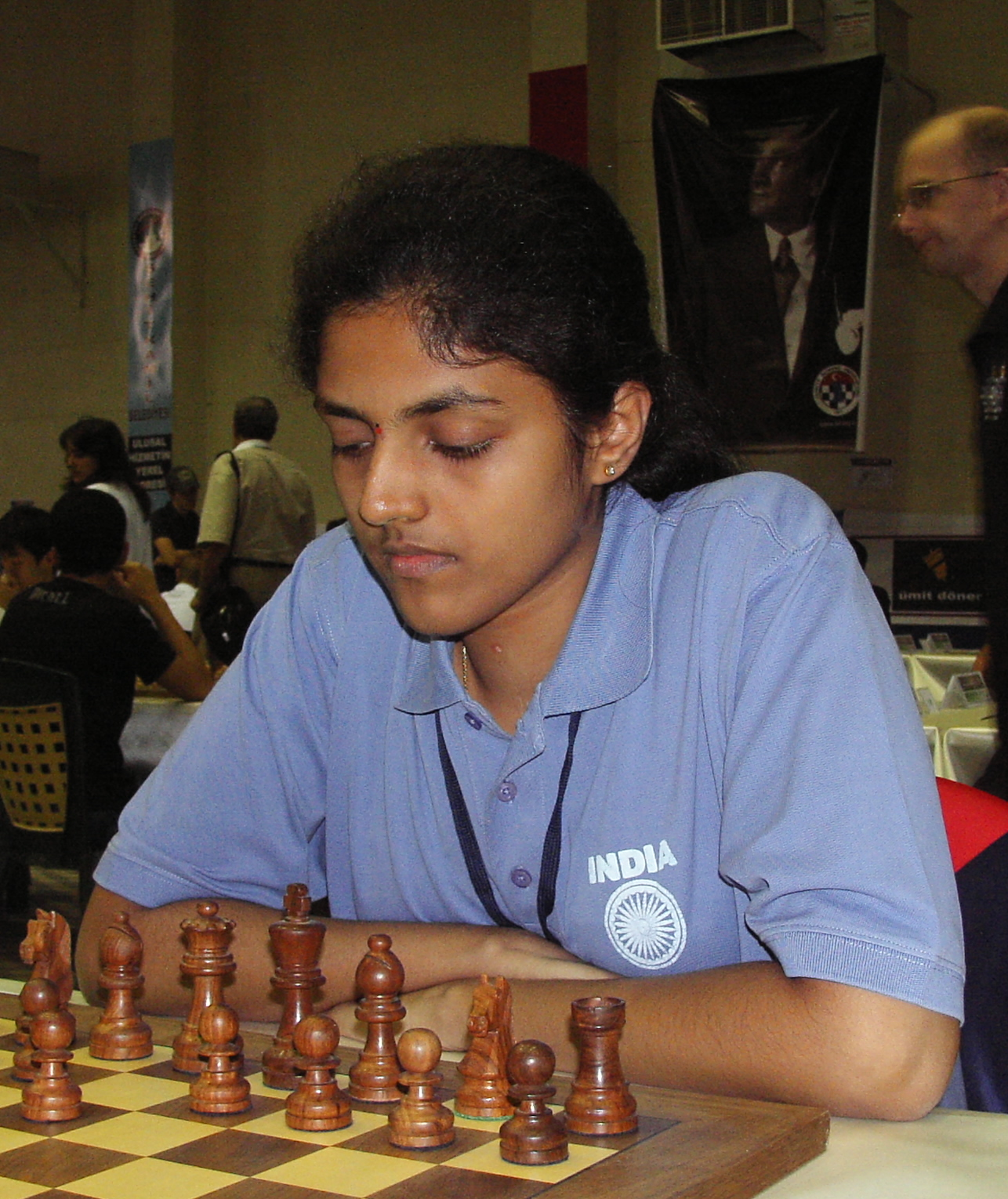 Dronavalli Harika of India, at the 2008 World Junior Chess Championship in Gaziantep, Turkey.